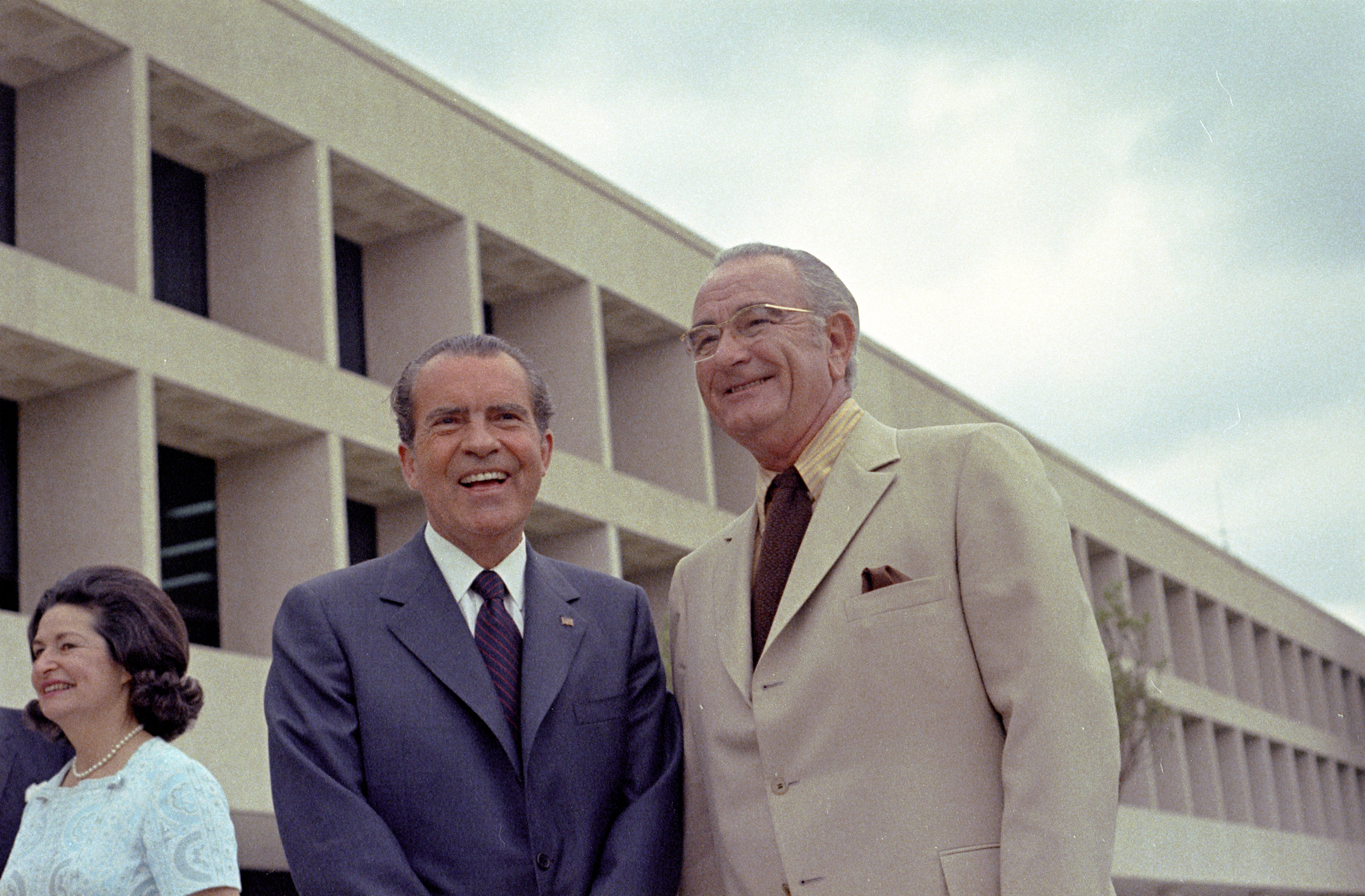 Smiling for cameras (L-R) Lady Bird Johnson, Pres. Richard Nixon, Lyndon B. Johnson.